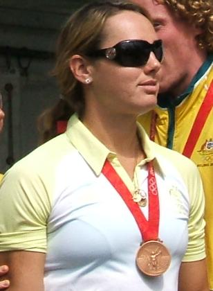 Lyndsie Fogarty at the 2008 Olympic homecoming parade in Adelaide